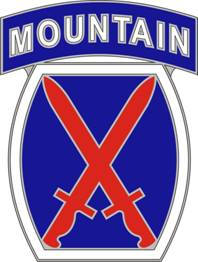 10th Mountain Division Combat Service Identification Badge